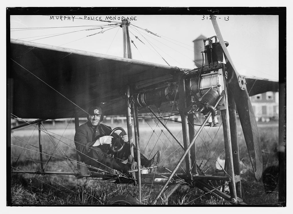 Charles Minthorn Murphy in the New York City police monoplane in 1914 Bain News Service,, publisher. Murphy -- Police Monoplane [between ca. 1910 and ca. 1915] 1 negative : glass ; 5 x 7 in. or smaller. Notes: Title from unverified data provided by the Bain News Service on the negatives or caption cards. Forms part of: George Grantham Bain Collection (Library of Congress). Format: Glass negatives. Repository: Library of Congress, Prints and Photographs Division, Washington, D.C. 20540 USA, General information about the Bain Collection is available at Persistent URL: Call Number: LC-B2- 3127-13